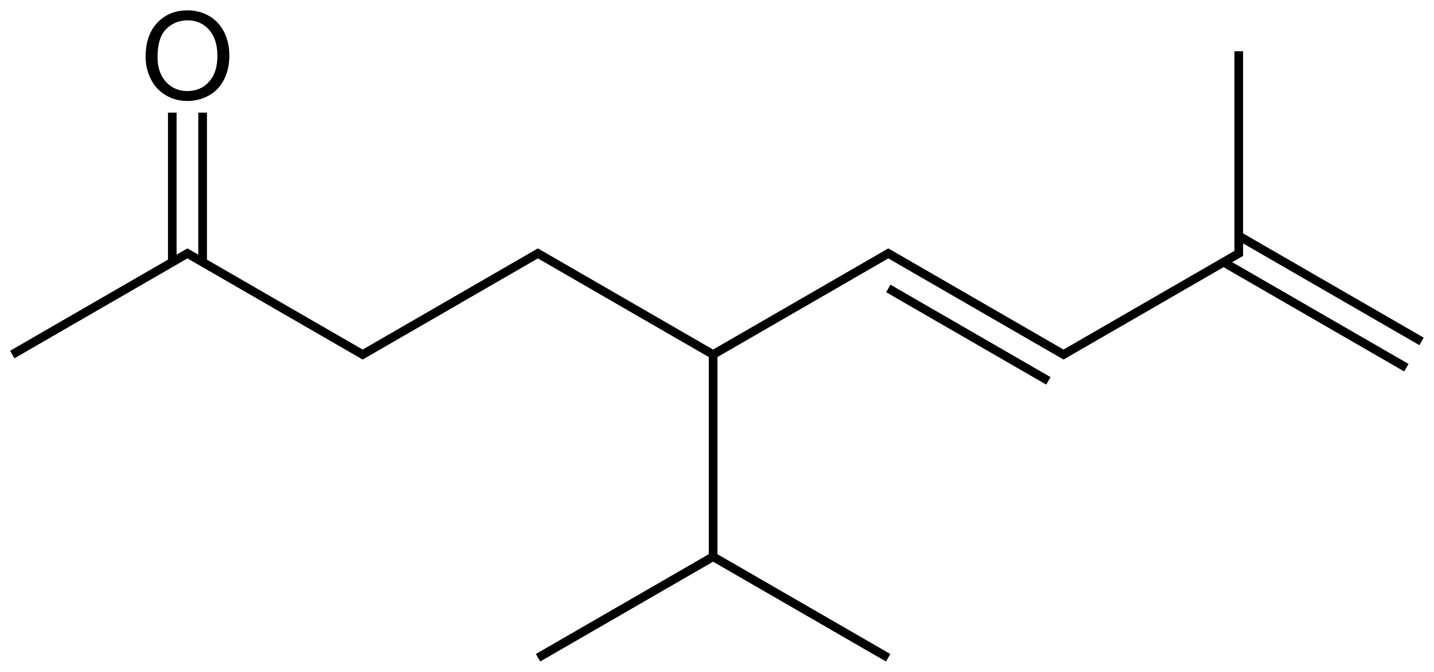 Chemical structure of solanone